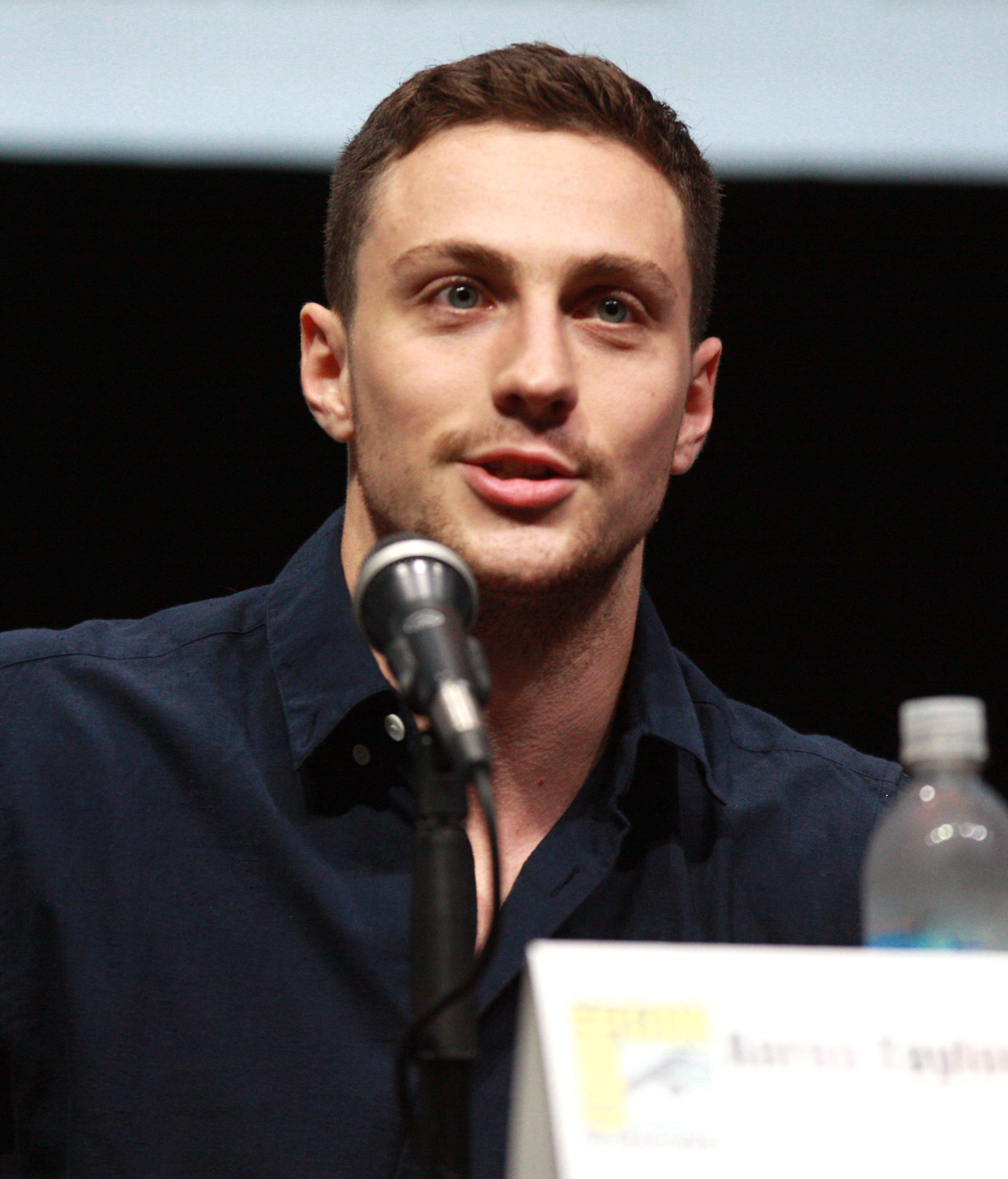 Aaron Taylor-Johnson at the 2013 San Diego Comic Con International in San Diego, California.